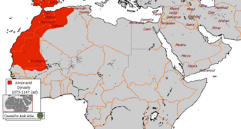 Morocco Almoravid in its Greatest Extent